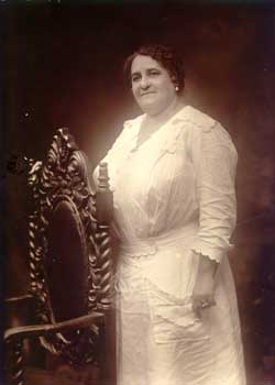 Maggie L. Walker — African American businessperson and banker in Richmond, Virginia − in 1913.